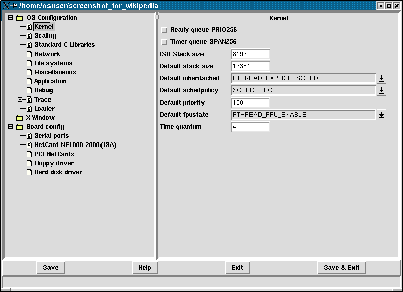 Screenshot of the real-time operating system "OS RV Baget" configuration window for Intel x86 BSP (board support package).